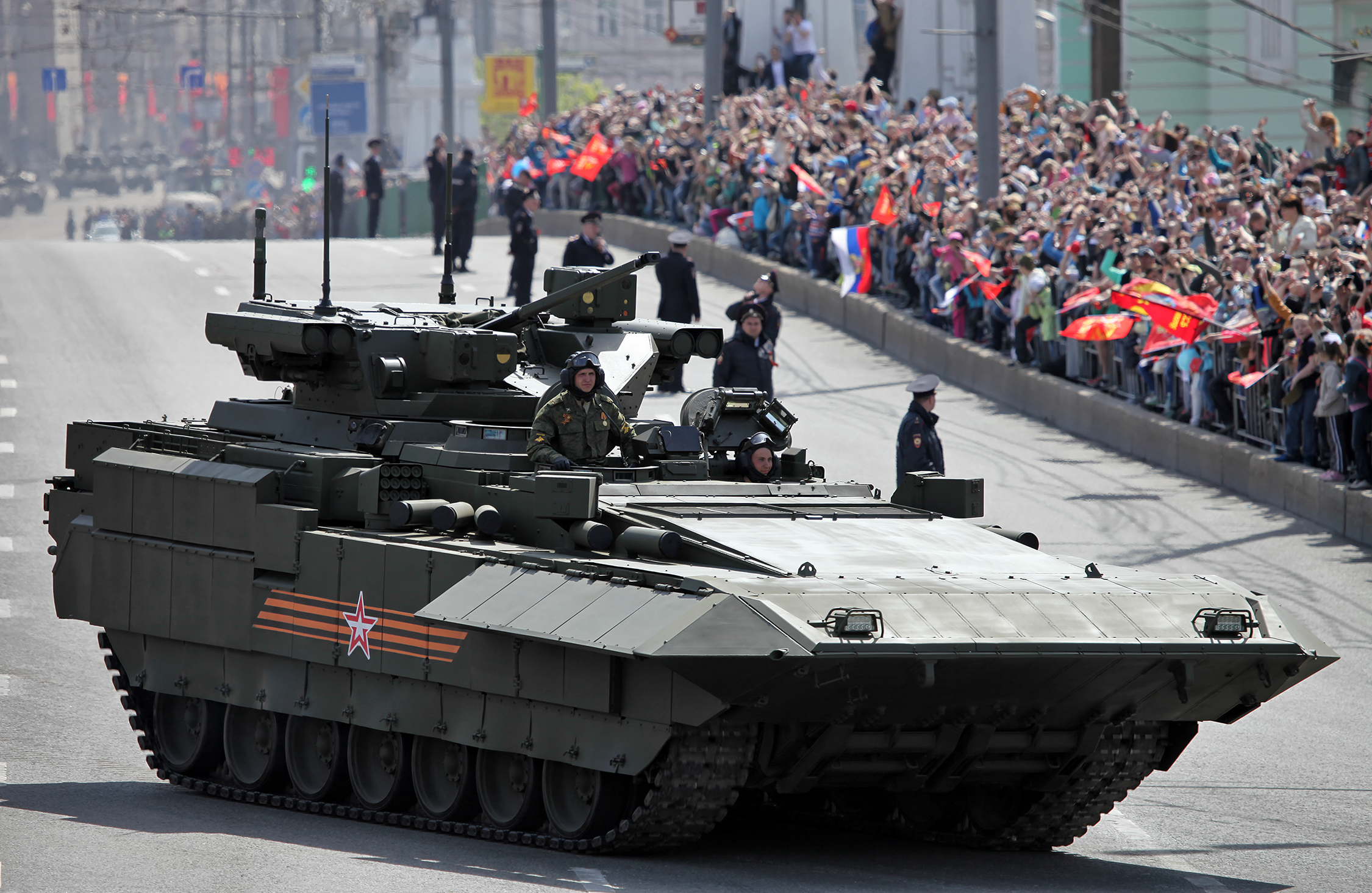 Heavy IFV T-15 object 149 Armata (in the streets of Moscow on the way to or from the Red Square)